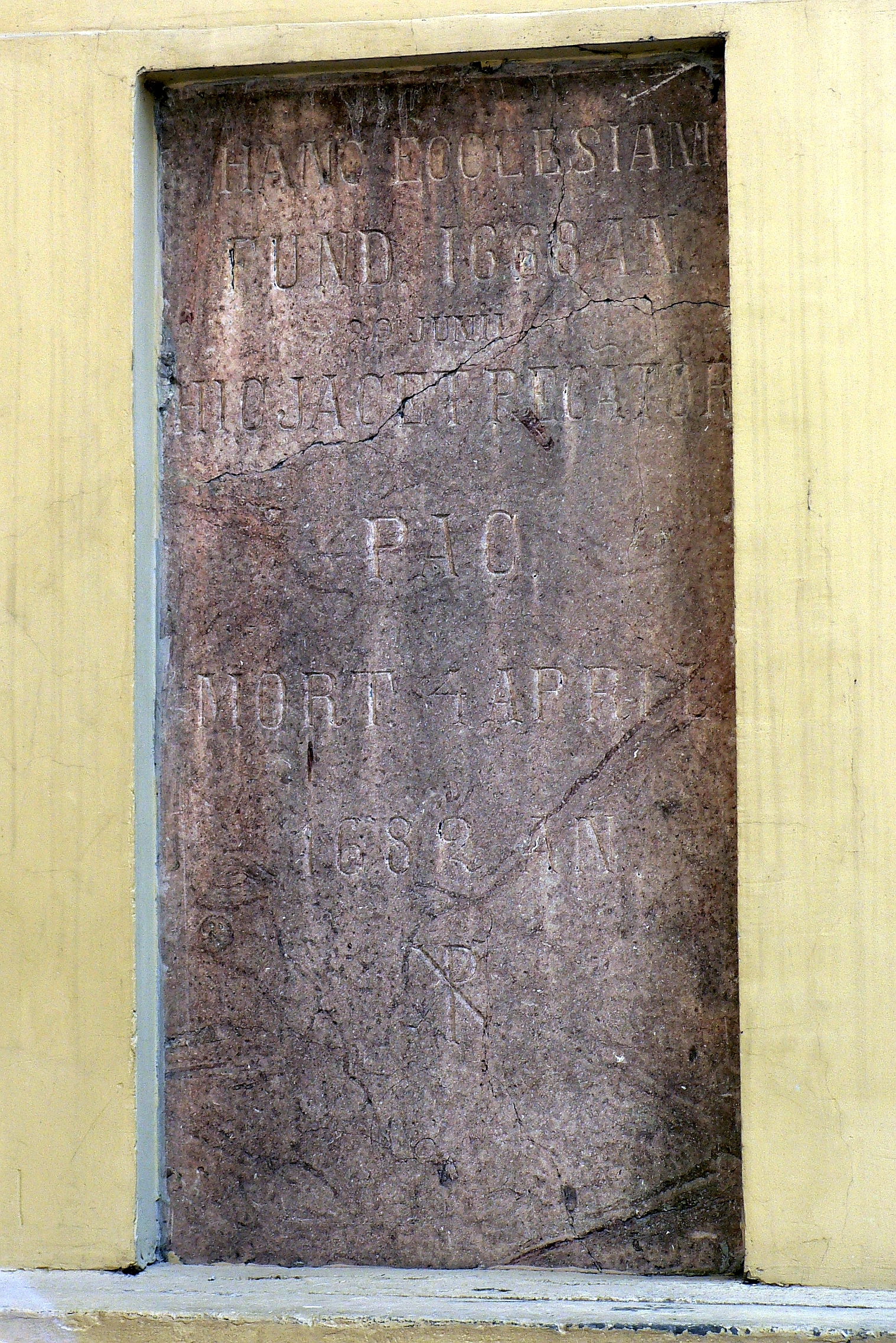 The founder's plaque of Pac at St. Peter and St. Paul church in Vilnius, Lithuania